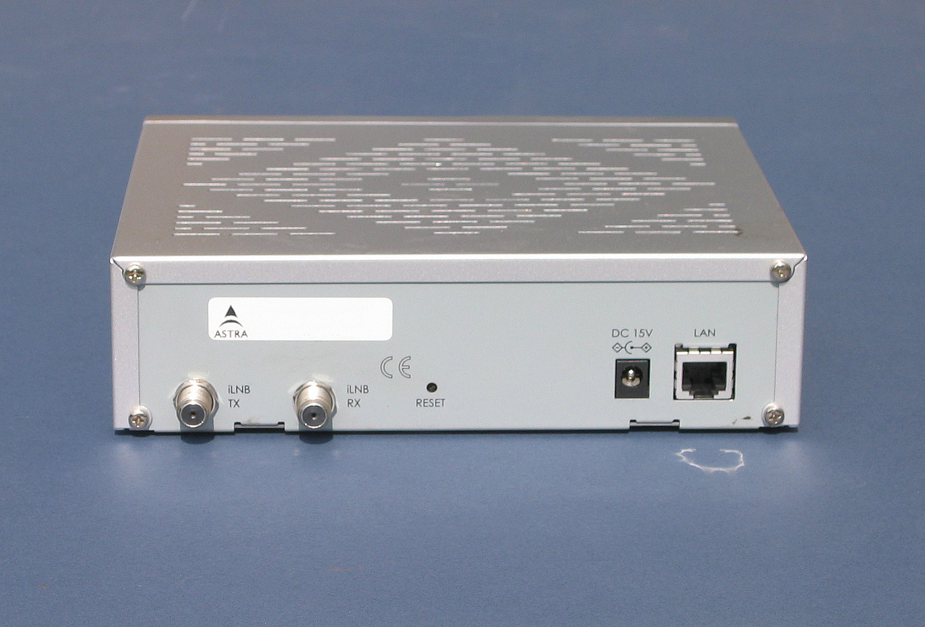 Rear panel of the IPmodem used in the ASTRA2Connect satellite broadband system